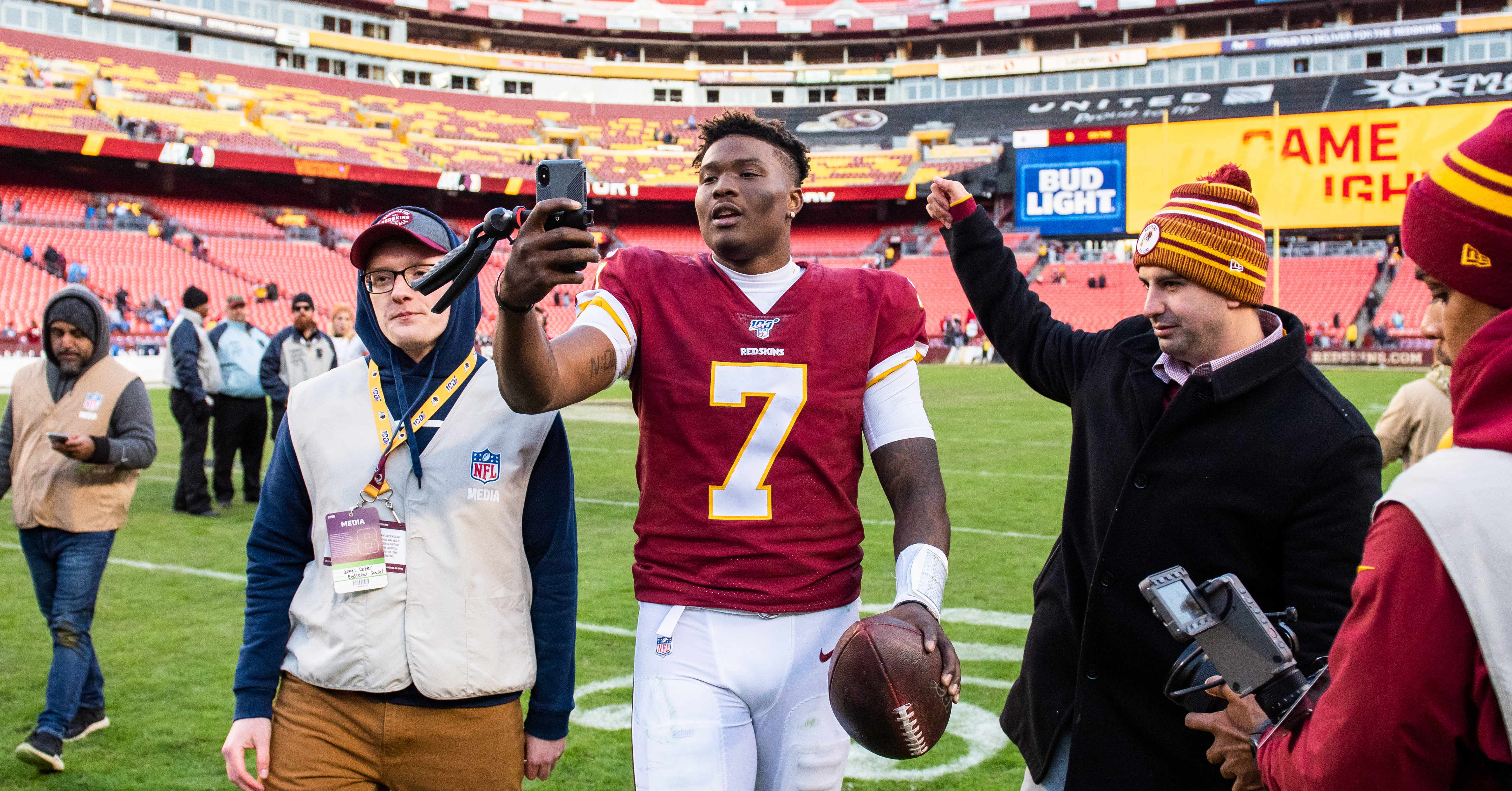 In 2019